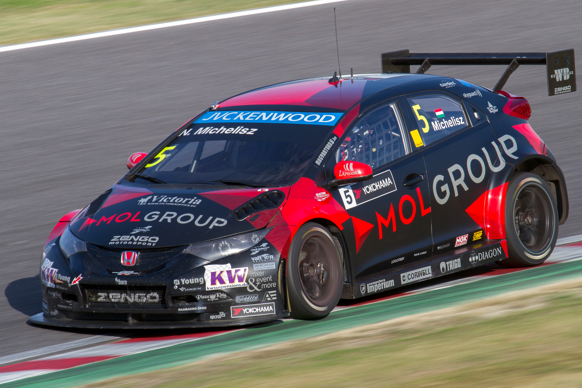 World Touring Car Championship 2014 Race of Japan: Norbert Michelisz (Zengő Motorsport)